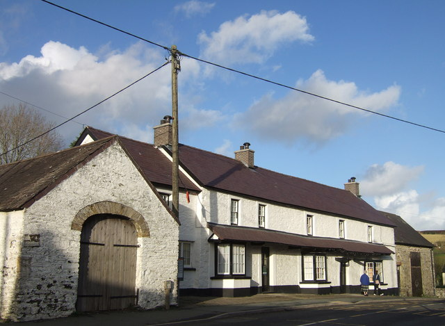 Serjeants' Inn, Eglwyswrw This old 18th century coaching inn in the middle of Eglwyswrw stood alongside the turnpike road (now the A487) between Fishguard and Cardigan, not far from its junction with the Haverfordwest turnpike road to the west of the village. As a result it was once an important staging post where the travelling serjeants-at-arms sought hospitality. It also housed the local Petty Sessions at one time but is now a private house.